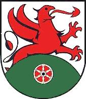 Coat of Arms of Kella